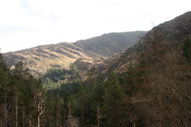 Bealick on the Shehy Mountain range This was taken from the circular roadway in Gougaune Barra Forest Park, Cork